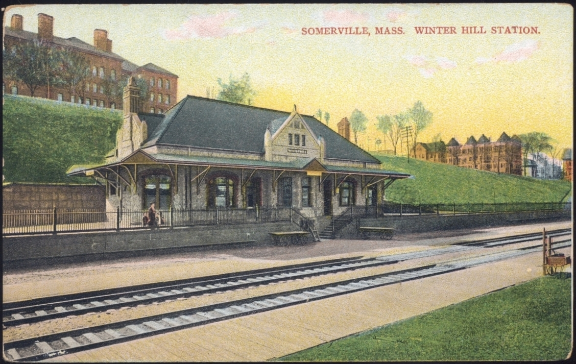 1908 postcard of Winter Hill station at Gilman Square in Somerville, Massachusetts